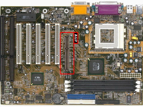 AGP slot highlighted on Soyo SY-7VBA133 mainboard.